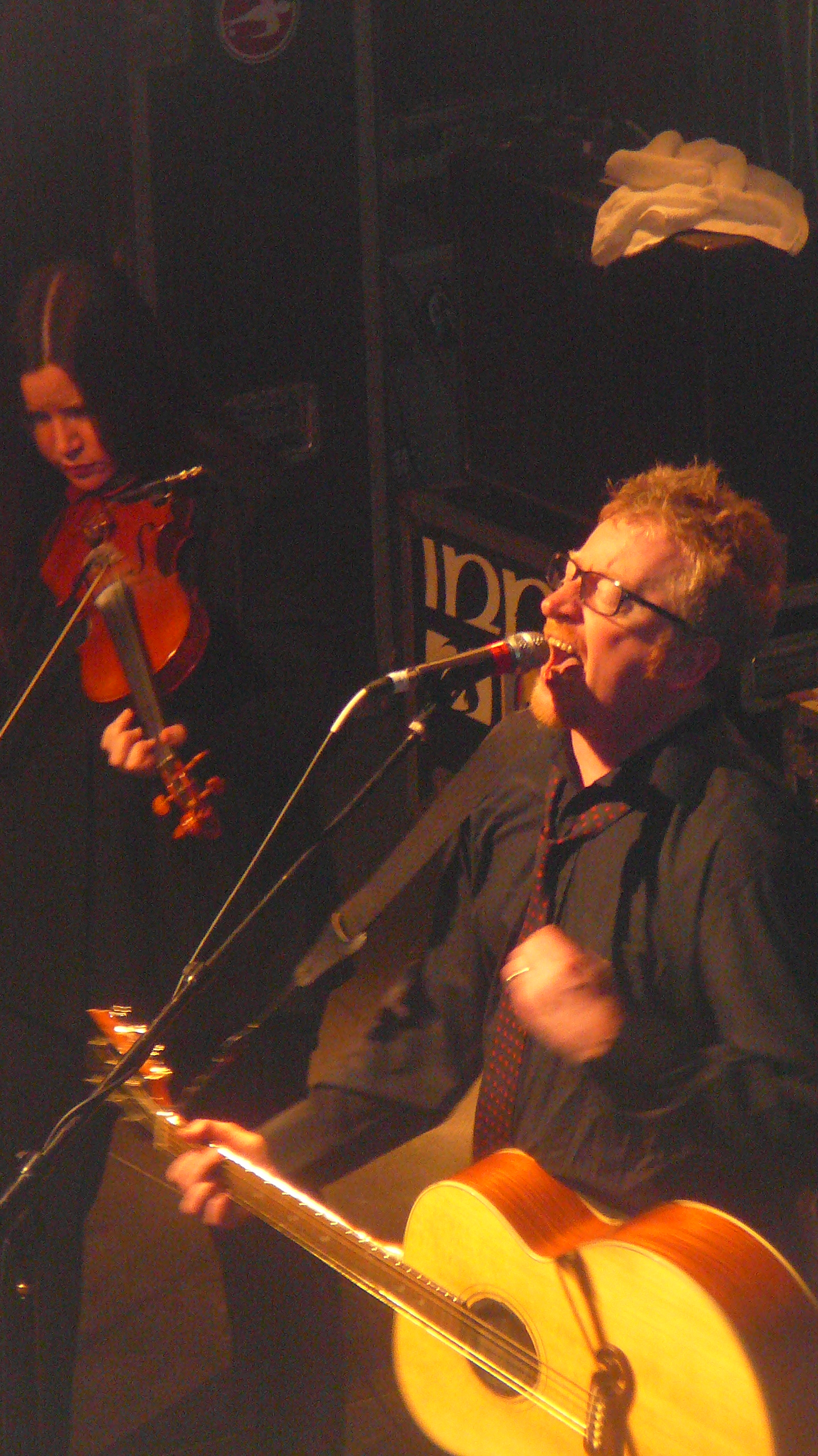 Dave King and wife Bridget Regan performing with Flogging Molly in Baltimore, MD in February 2010